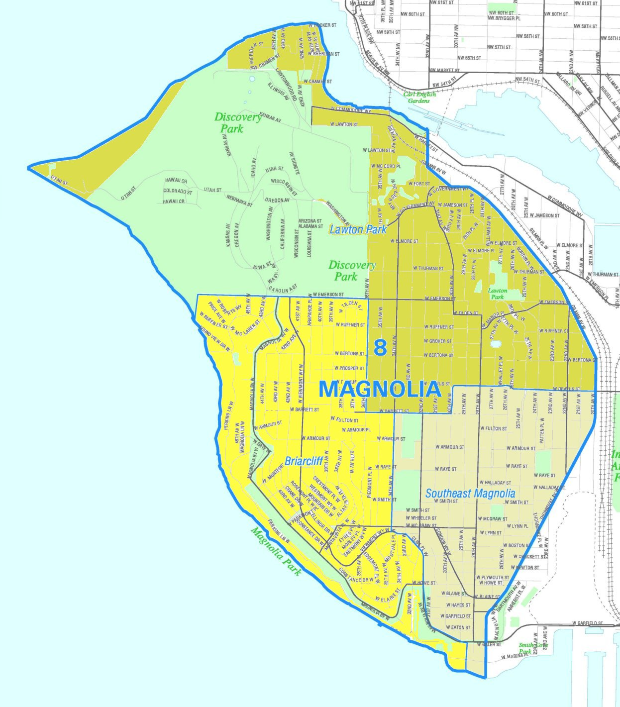 Map of the Seattle's Magnolia neighborhood. Like the other maps from the Seattle City Clerk's Neighborhood Map Atlas, this is not an official map; in particular, borders are not official. Disclaimer: The Seattle Neighborhood Atlas, which the Seattle Clerk's Office has placed in the public domain (as confirmed by OTRS ticket 2008033110016048) contains some general commentary on the maps, "About Maps", which should typically be linked as an accompaniment to these maps to (in their words) "minimize the numerous 'complaints' or comments by users who feel it necessary to point out how the Clerk's Office is 'wrong' about a certain section of town." In particular, "About Maps" says that the atlas "is designed for subject indexing of legislation, photographs, and other documents in the City Clerk's Office and Seattle Municipal Archives" and "is not designed or intended as an 'official' City of Seattle neighborhood map. There are many different ideas of what neighborhood districts exist in Seattle and what their names are…"